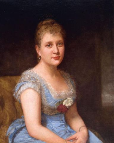 Portrait of a woman wearing a blue dress with white lace, oil on canvas painting by Jeanette Shepperd Harrison Loop